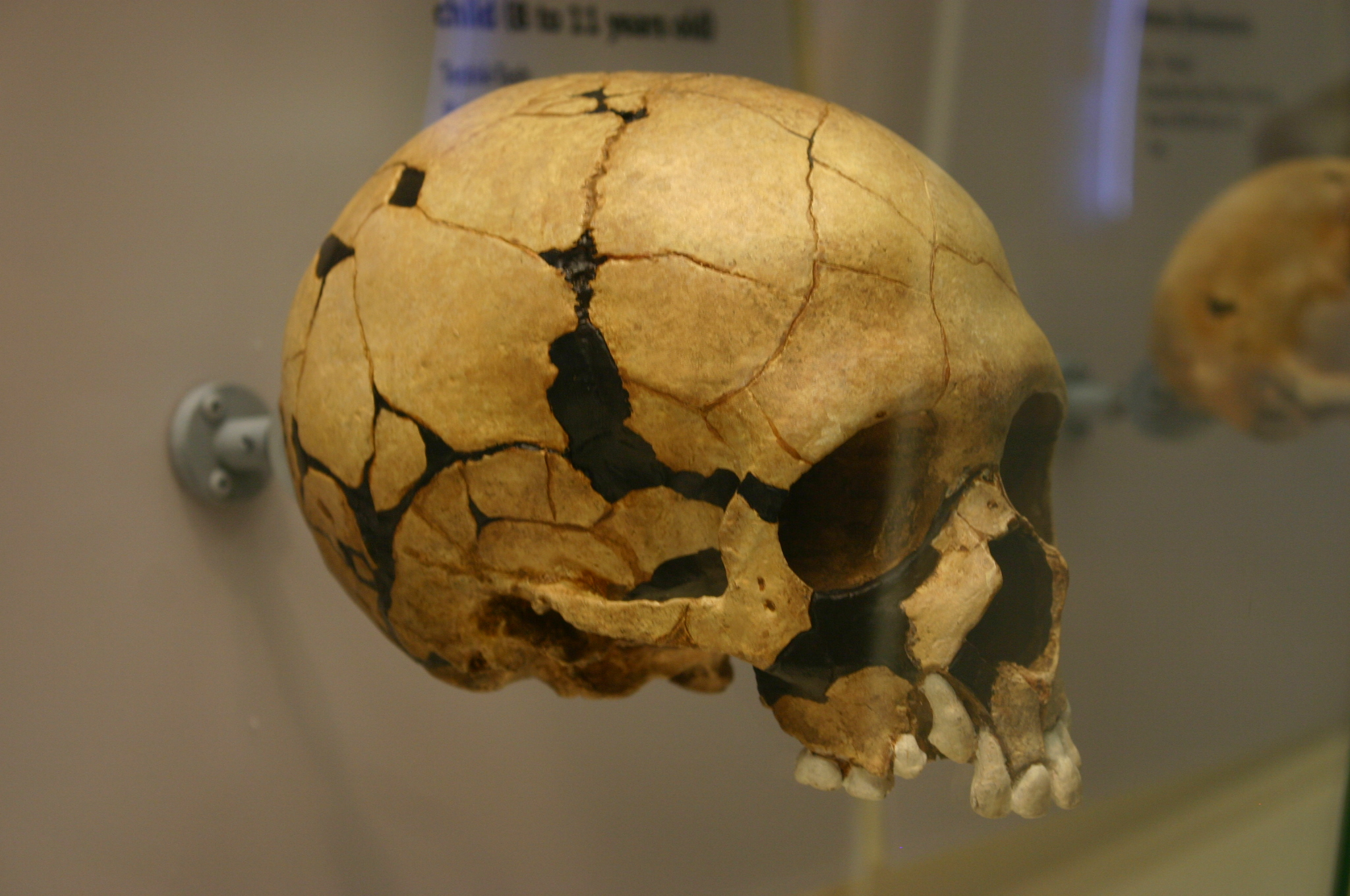 Taken at the David H. Koch Hall of Human Origins at the Smithsonian Natural History Museum.